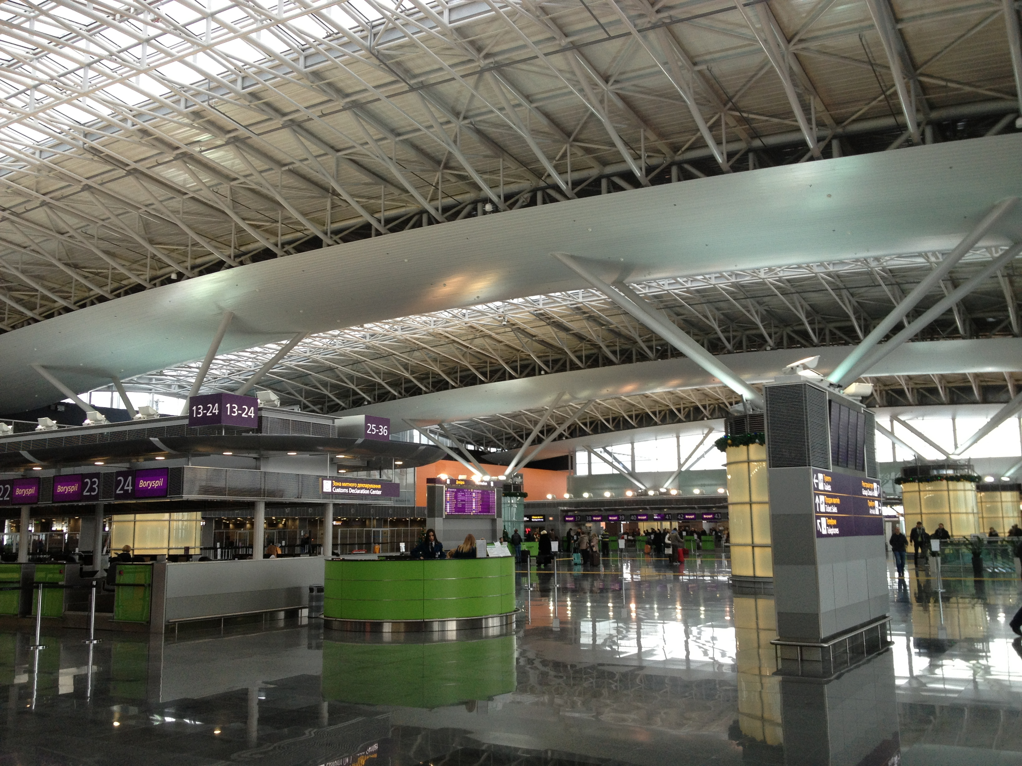 The main check-in hall of Terminal D at Kiev's Boryspil Intl. Airport